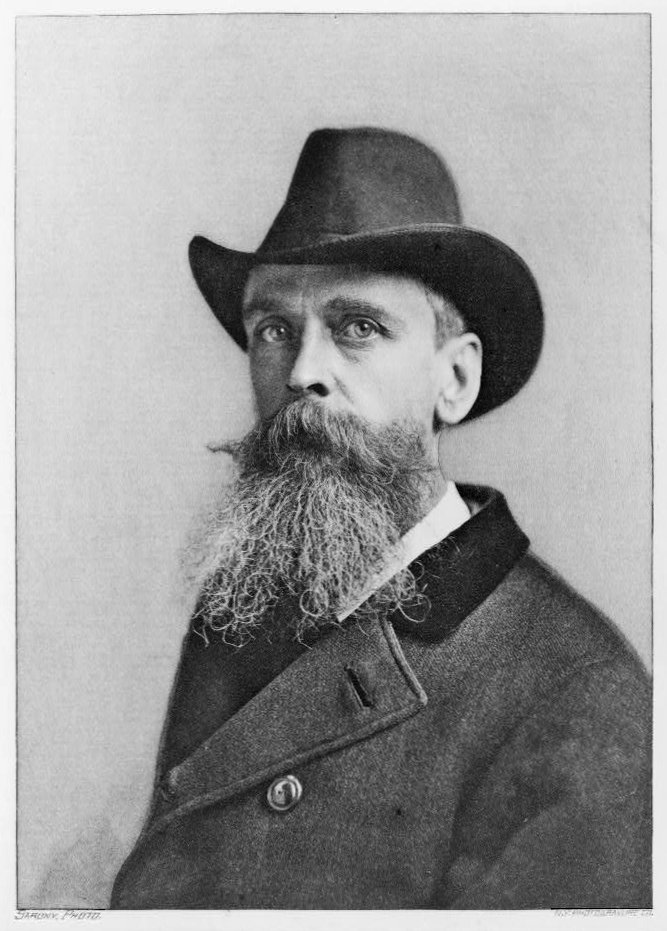 Photographic portrait of the American artist Thomas Moran by Napoleon Sarony, circa 1890-1896. Image courtesy of the Prints and Photographs Division, Library of Congress, Washington, D.C.